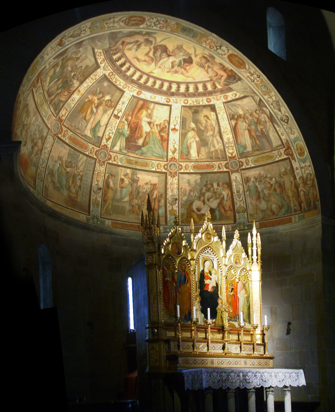 Interno dell'abside